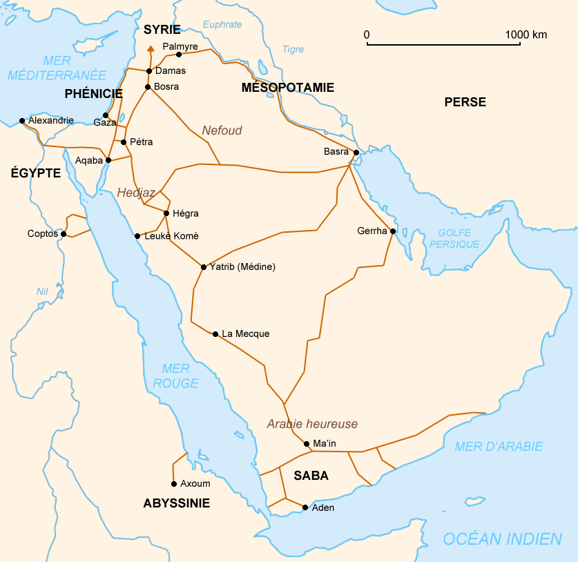 Nabataeans' commercial roads